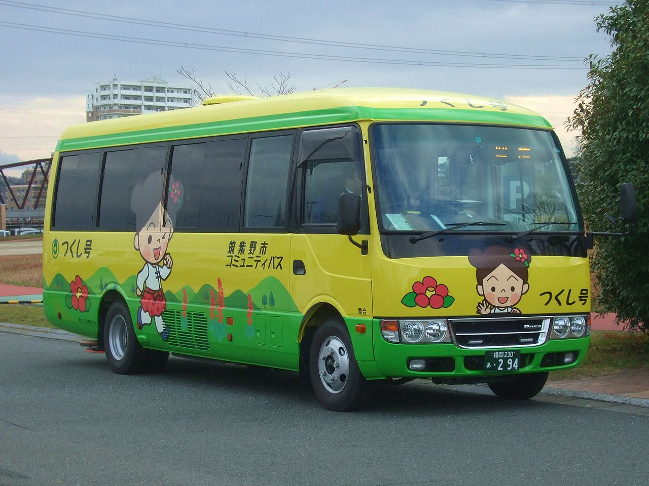 Chikushino City community bus "Tsukushi-go" Company:Tsukushino Kanko Bus Use:transit bus (community bus) Car license:FOF230 A 294 Chassis manufacturer:Mitsubishi Fuso Truck and Bus Type:Mitsubishi Fuso Rosa Coachbuilder:Mitsubishi Fuso Bus Manufacturing Location:In Chikushino City, Fukuoka, Japan.